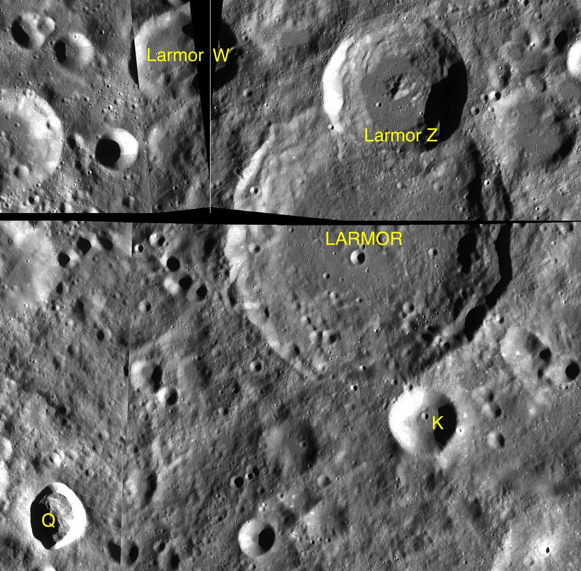 Parts of the charts LAC-32, LAC-33, LAC-50 used for the presentation.